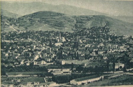 Bitola, Macedonia